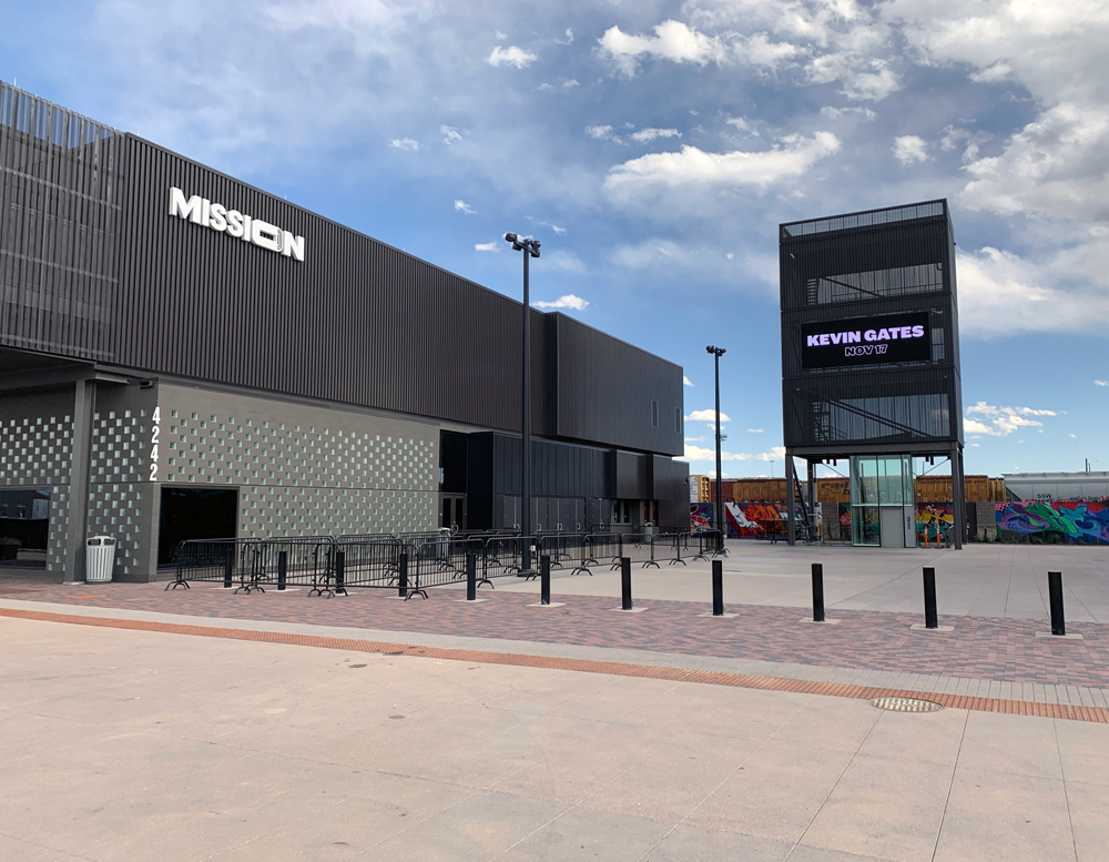 The exterior of the newly built Mission Ballroom in Denver, Colorado.